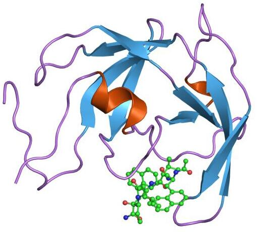 Cartoon representation of the molecular structure of protein registered with 4fiv code.